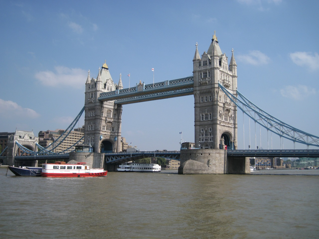 The Tower Bridge in London, England.